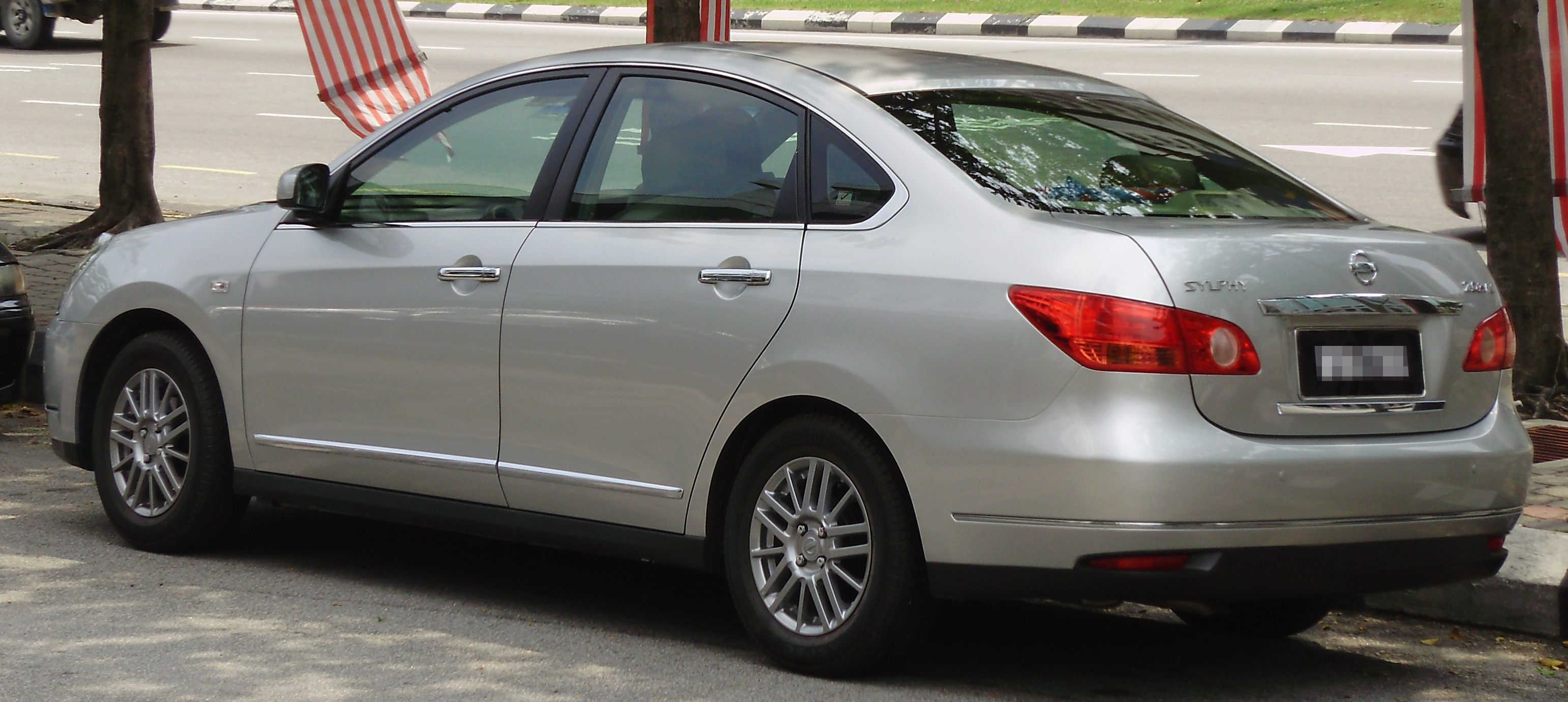 Rear quarter view of a second generation Nissan Sylphy in Imbi, Kuala Lumpur, Malaysia. The locally sold Sentra was in effect, a rebadged Bluebird Sylphy, hence being the first generation Bluebird Sylphy, although this is the first Nissan car in the Malaysian market to be known as the Sylphy.